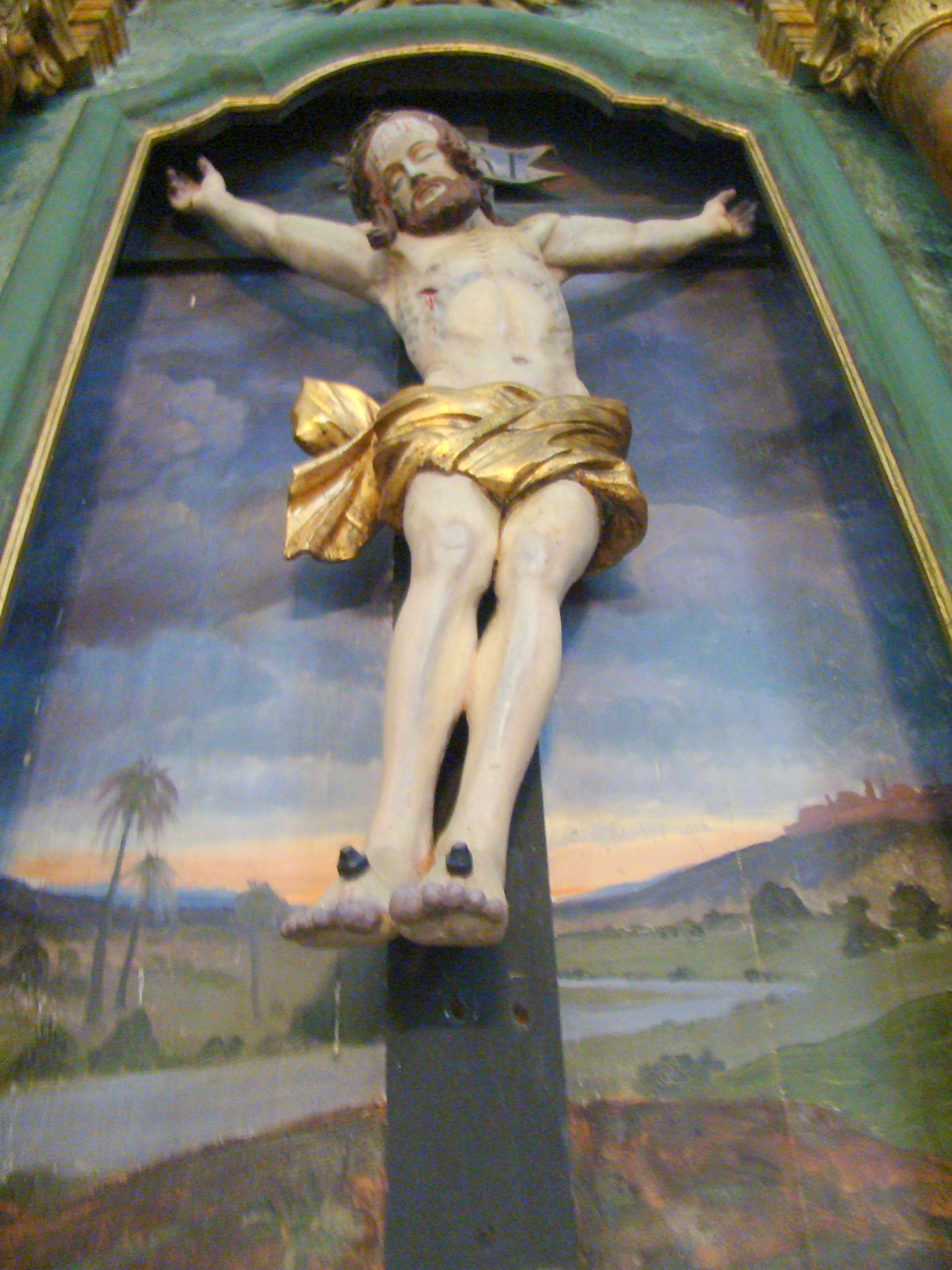 Fortified church in Ticușu Vechi, Brașov County, Romania